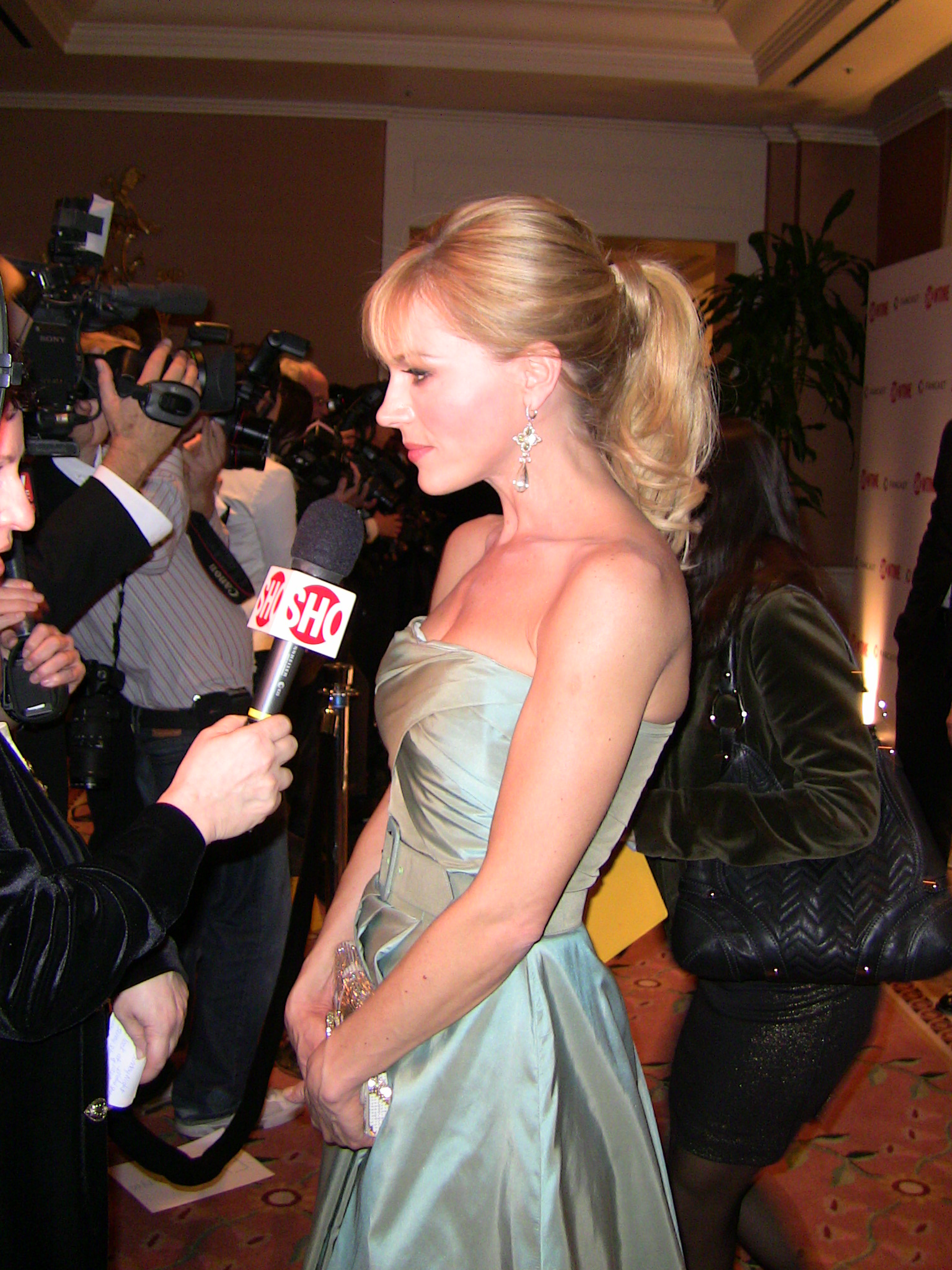 Julie Benz at the Showtime Golden Globes Party, The Peninsula Hotel, Beverly Hills, Calif. - Jan. 11, 2009